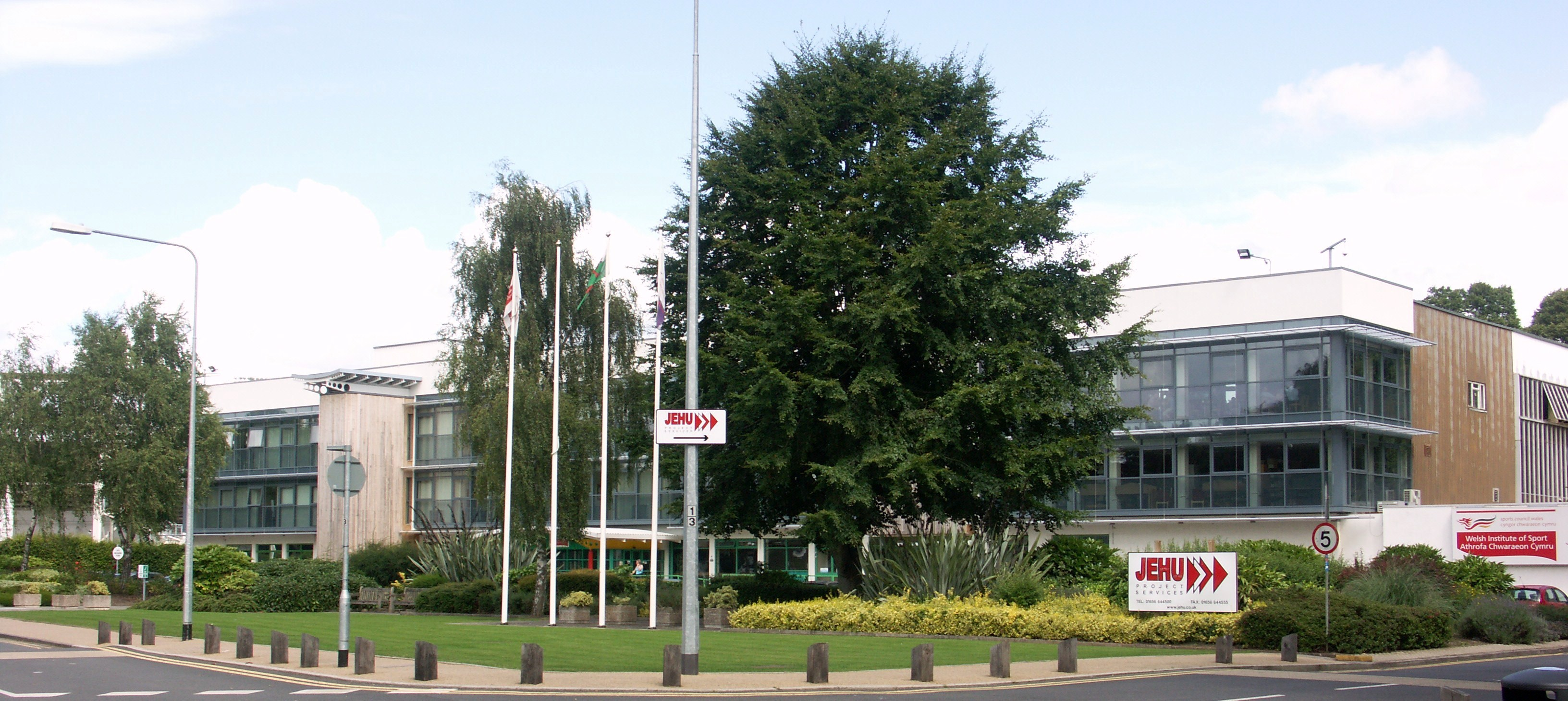 Welsh Institute of Sport, Cardiff